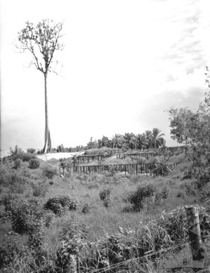 Australian War Memorial ID Number: 120461 Photographer: Burke, Frank Albert Charles Caption: October 24, 1945. Sandakan prisoner of war camp, Sandakan, North Borneo. A few months after it was vacated and demolished by retreating Japanese troops, little remains of the burnt-out camp. In an area of No. 1 compound (pictured) the bodies of 300 prisoners of war were discovered. They were believed to have been those men left in the camp after the Sandakan death marches to Ranau. Each grave contained several bodies, in some cases as many as 10. Australian and British personnel were murdered and buried here.